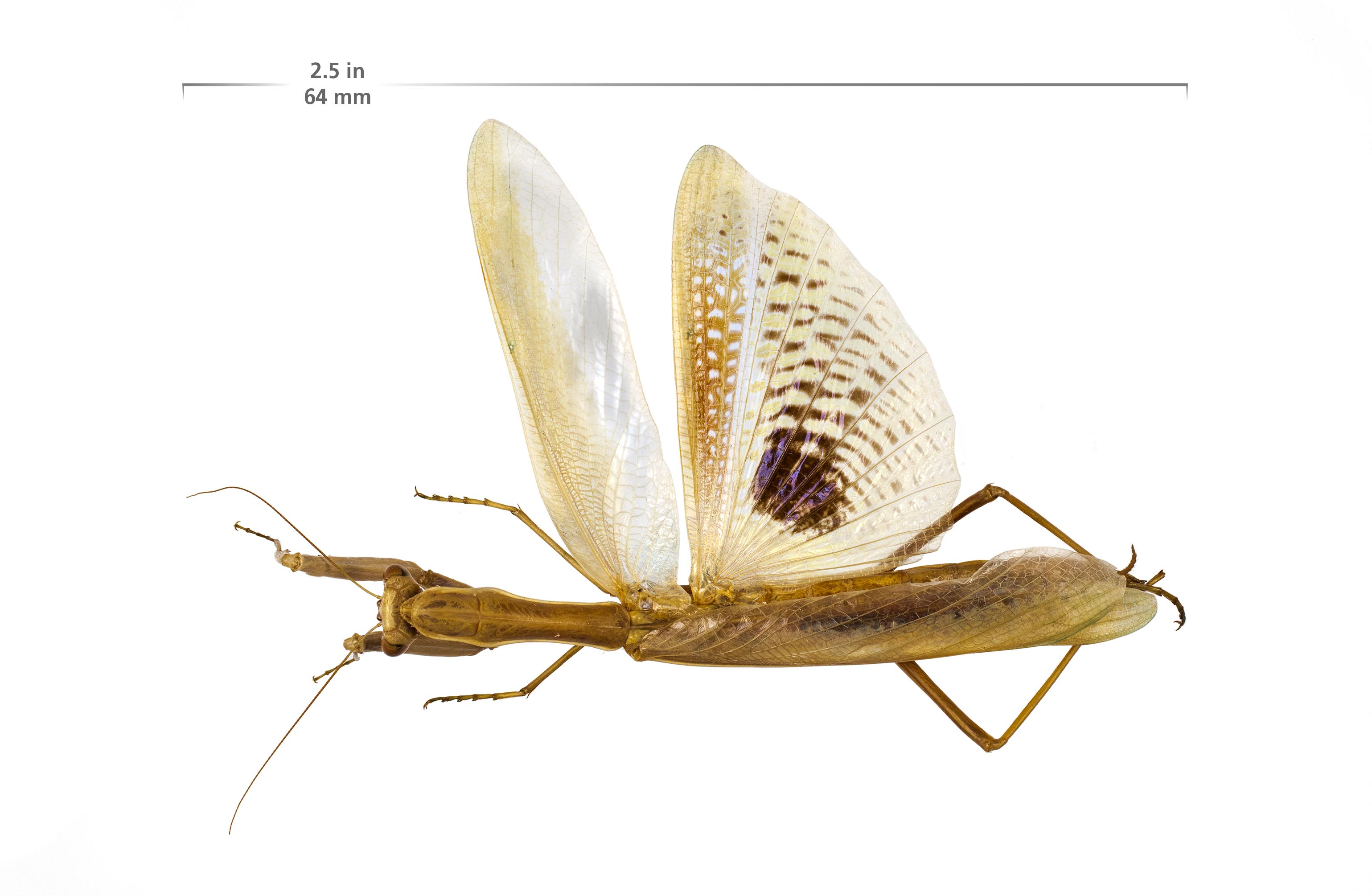 Genus - Iris Species - oratoria Common Name - not available NPS Photo by Andrew Cattoir